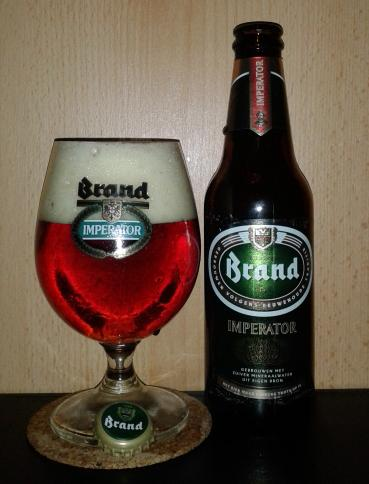 Brand Imperator (.30 liter bottle) with the correct related glass!